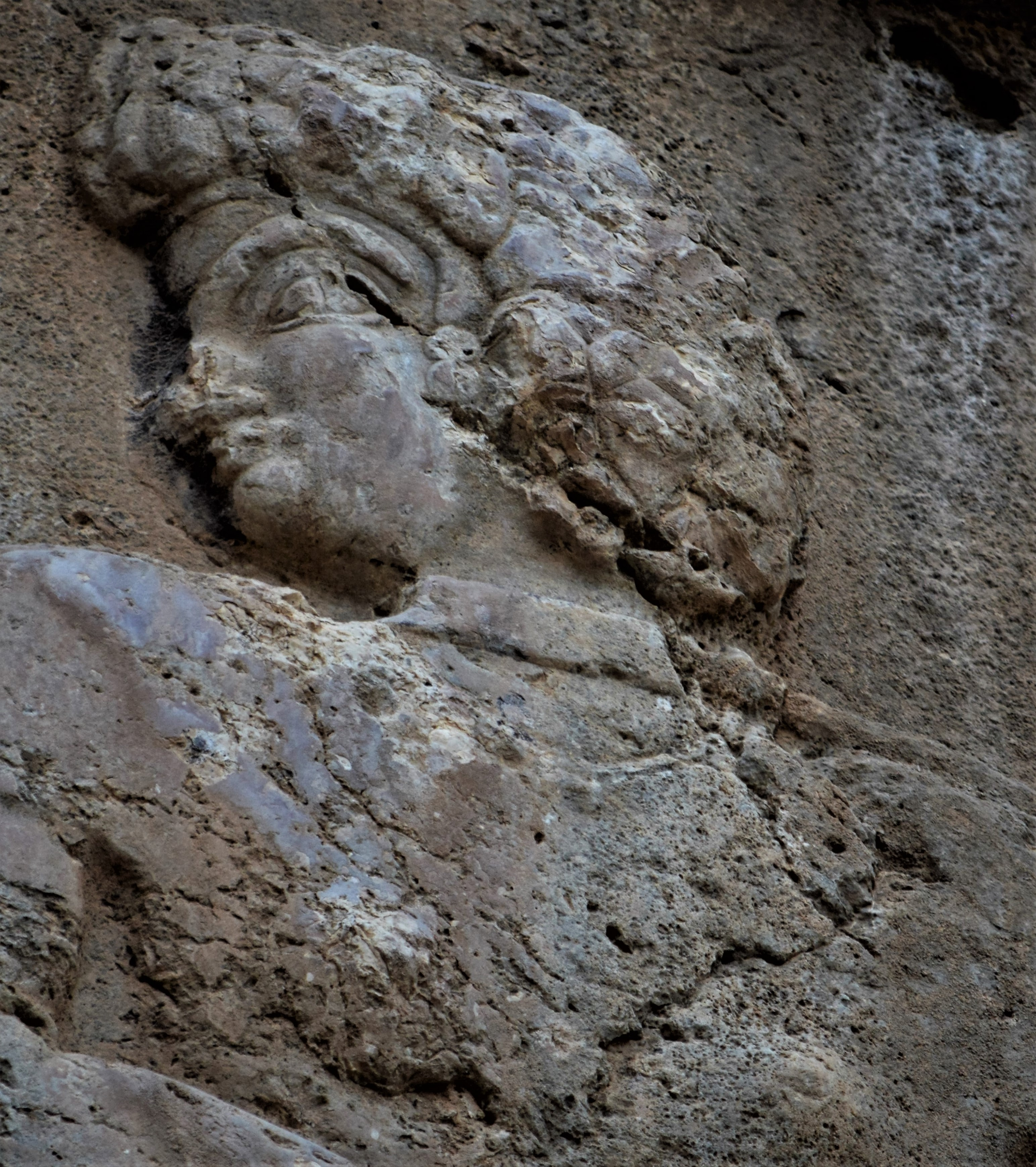 Elamite Queen from Shakaft-e Salman II, 12th century BC